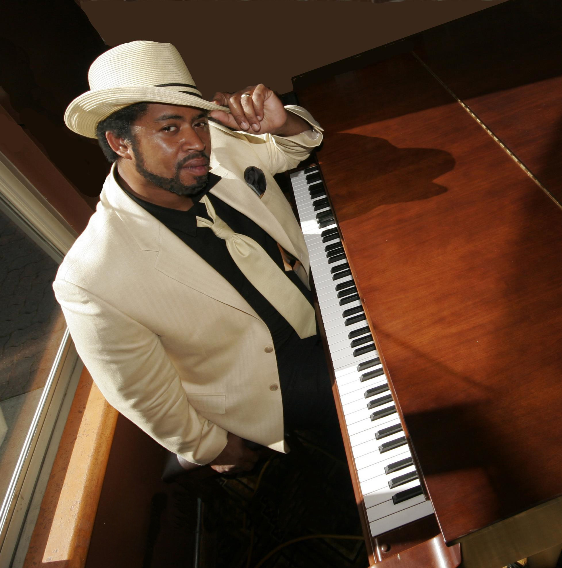 Maestro Curtis photo